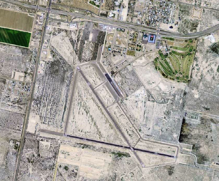 USGS digital orthophoto of Pecos Municipal Airport in Texas